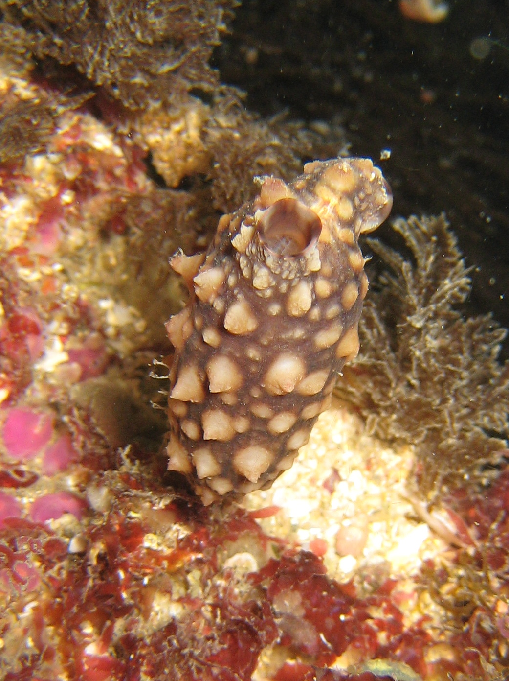 Folded sea-squirt (Styela clava) in Saint-Quay-Portrieux